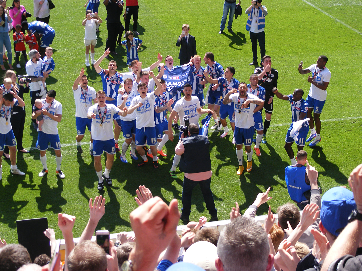 Wigan Athletic FC, Champion of Football League One 2015-16.